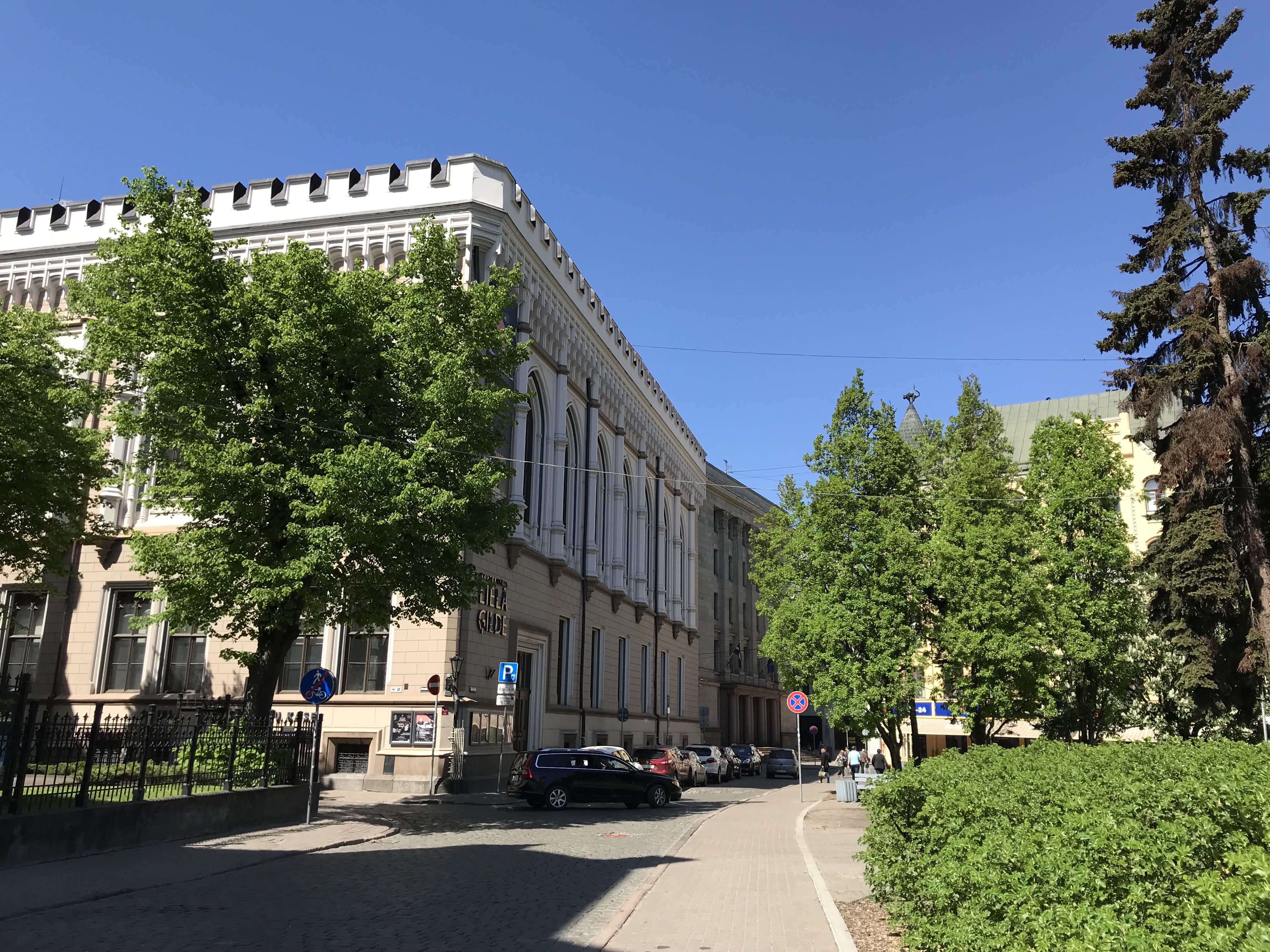 The Large Guild in Riga on the left, opposite the Cat House behind the trees. May 11, 2018.